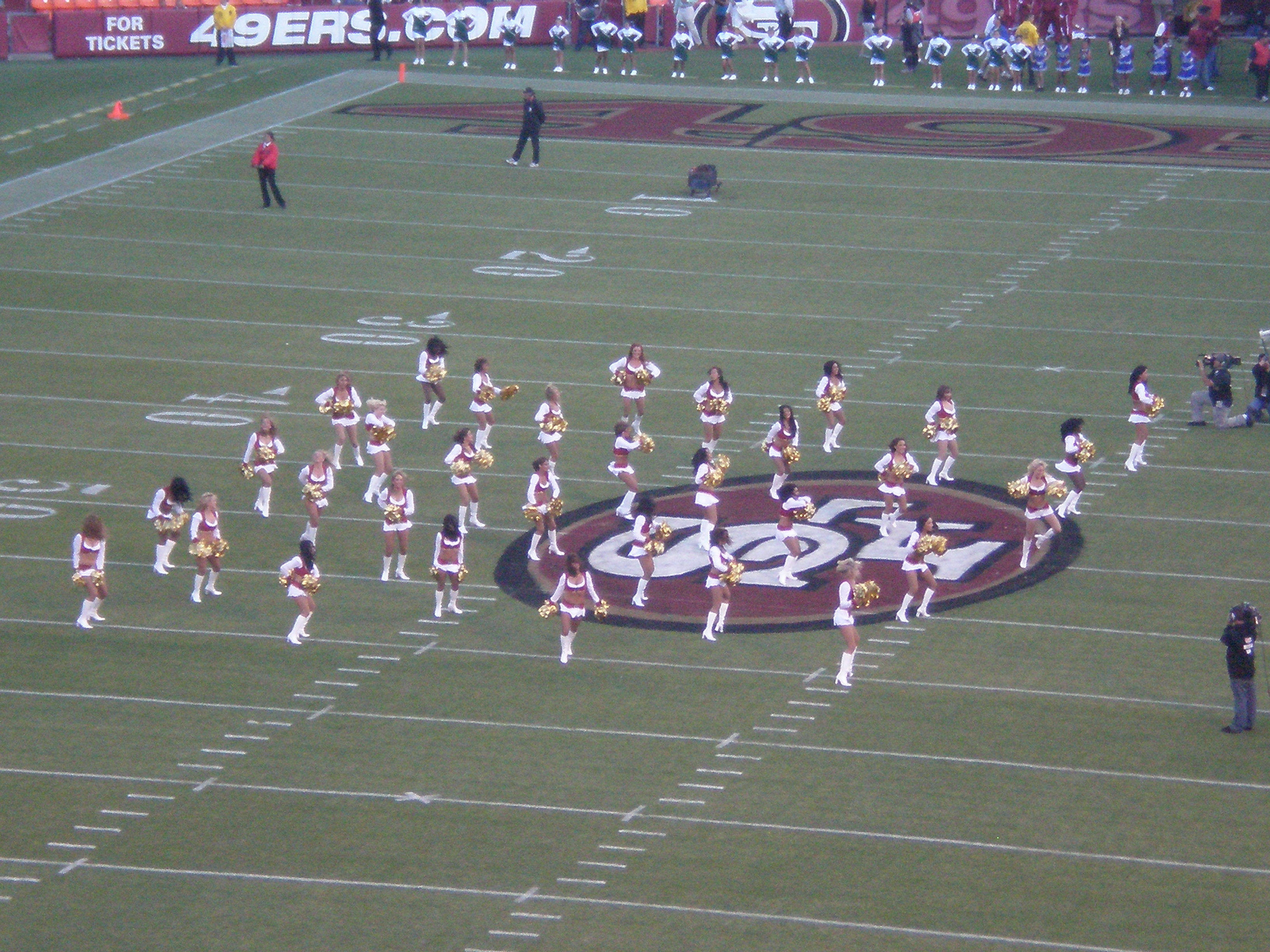 A performance by the San Francisco Gold Rush prior the 49ers' final preseason game of the 2008 season against the San Diego Chargers at Candlestick Park. The Chargers won 20-17.